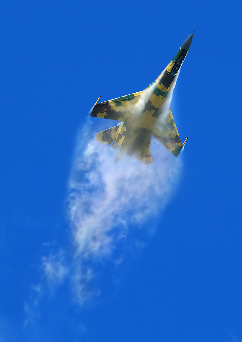 Sukhoi Su-35S (Su-35BM) multirole fighter at MAKS-2009 airshow